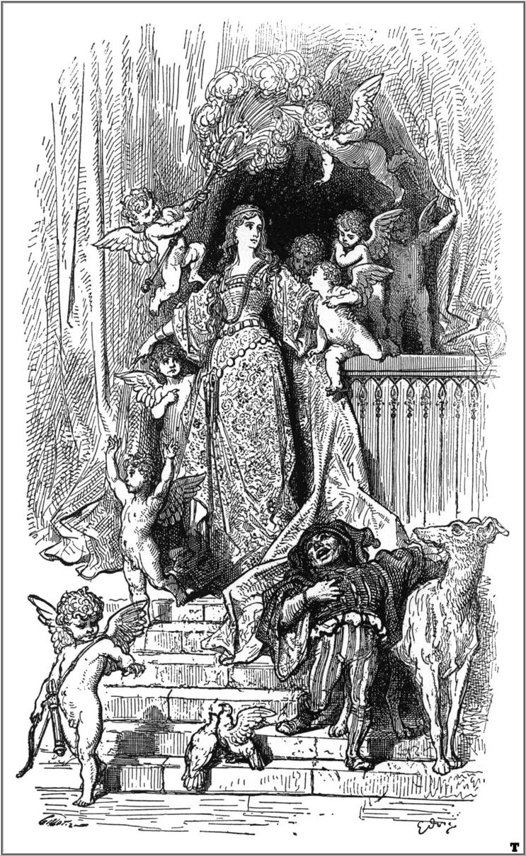 illustration of Ludovico Ariosto’s “Orlando Furioso”.